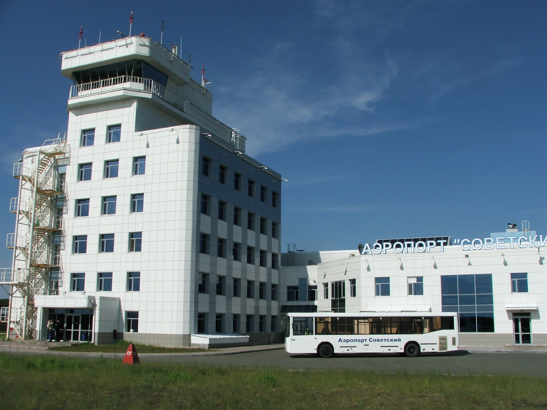 tower